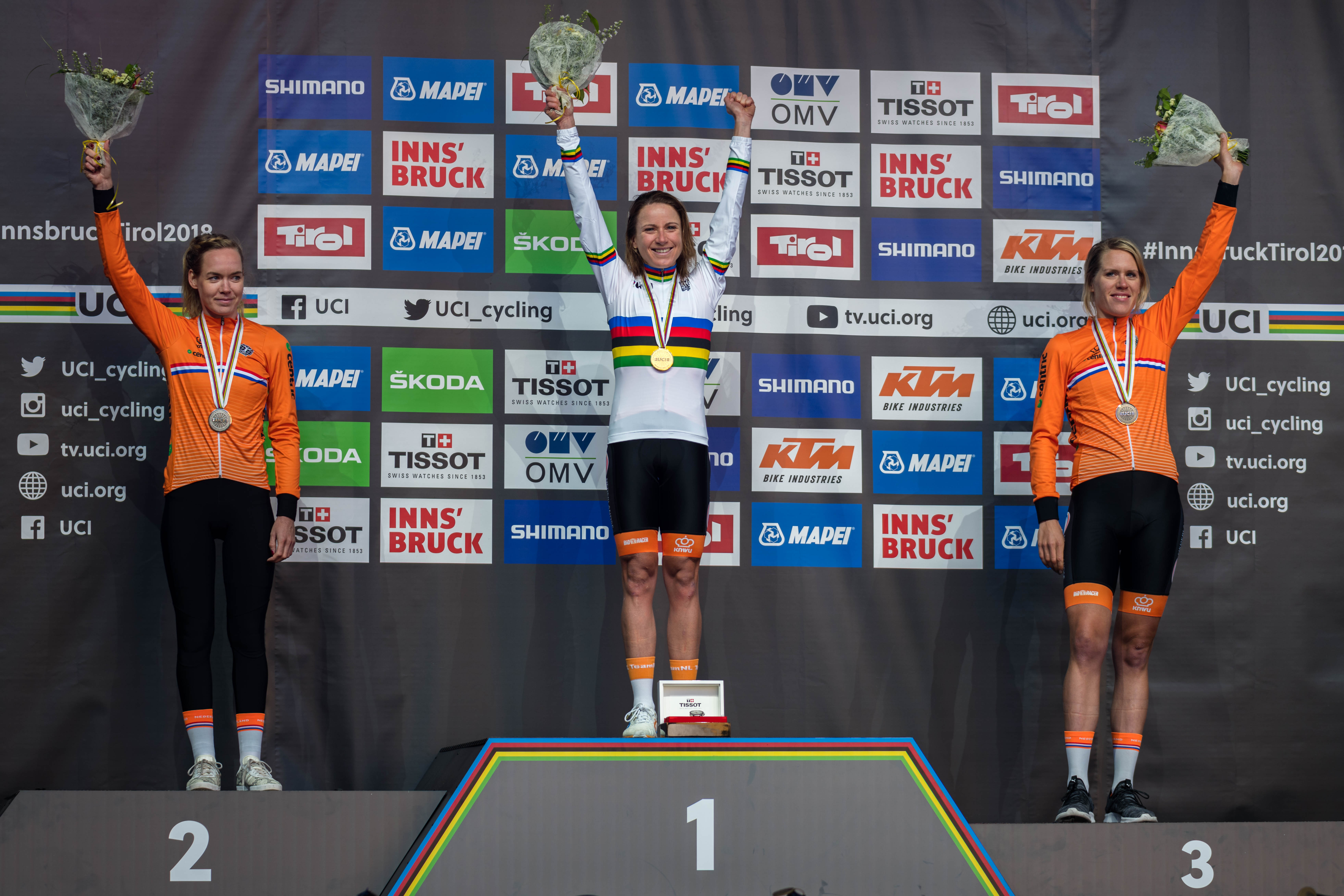 2018 UCI Road World Championships Innsbruck/Tirol Women Elite Individual Time Trial. Picture shows: Award Ceremony with Anna van der Breggen of the Netherlands, Annemiek van Vleuten of the Netherlands and Ellen van Dijk of the Netherlands